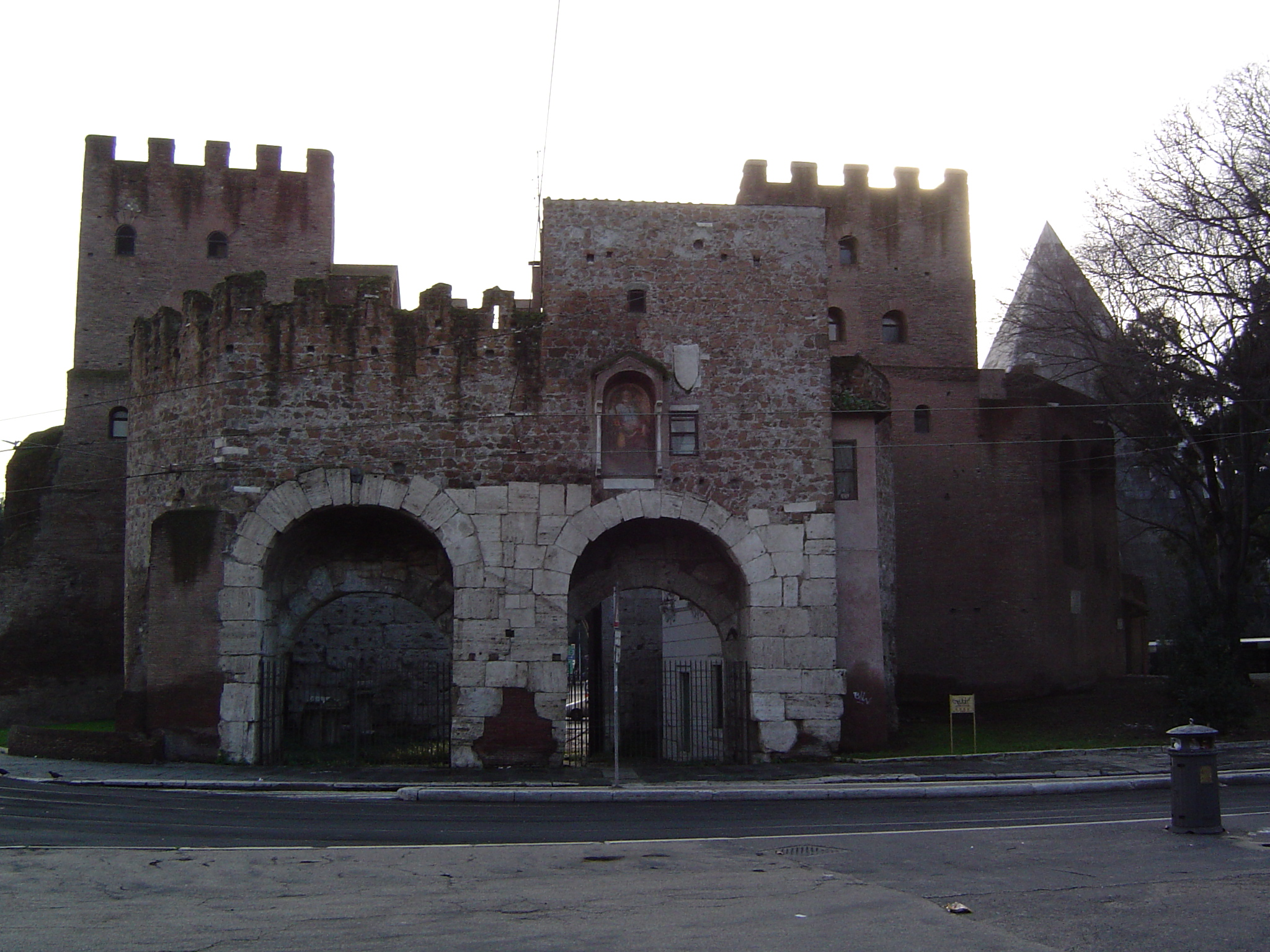 Porta San Paolo, Rome, Italy Made by Joris van Rooden, the Netherlands on 03-01-2006